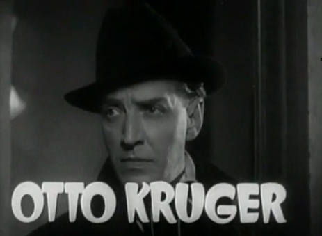 Screenshot of Otto Kruger from the film Dracula's Daughter.